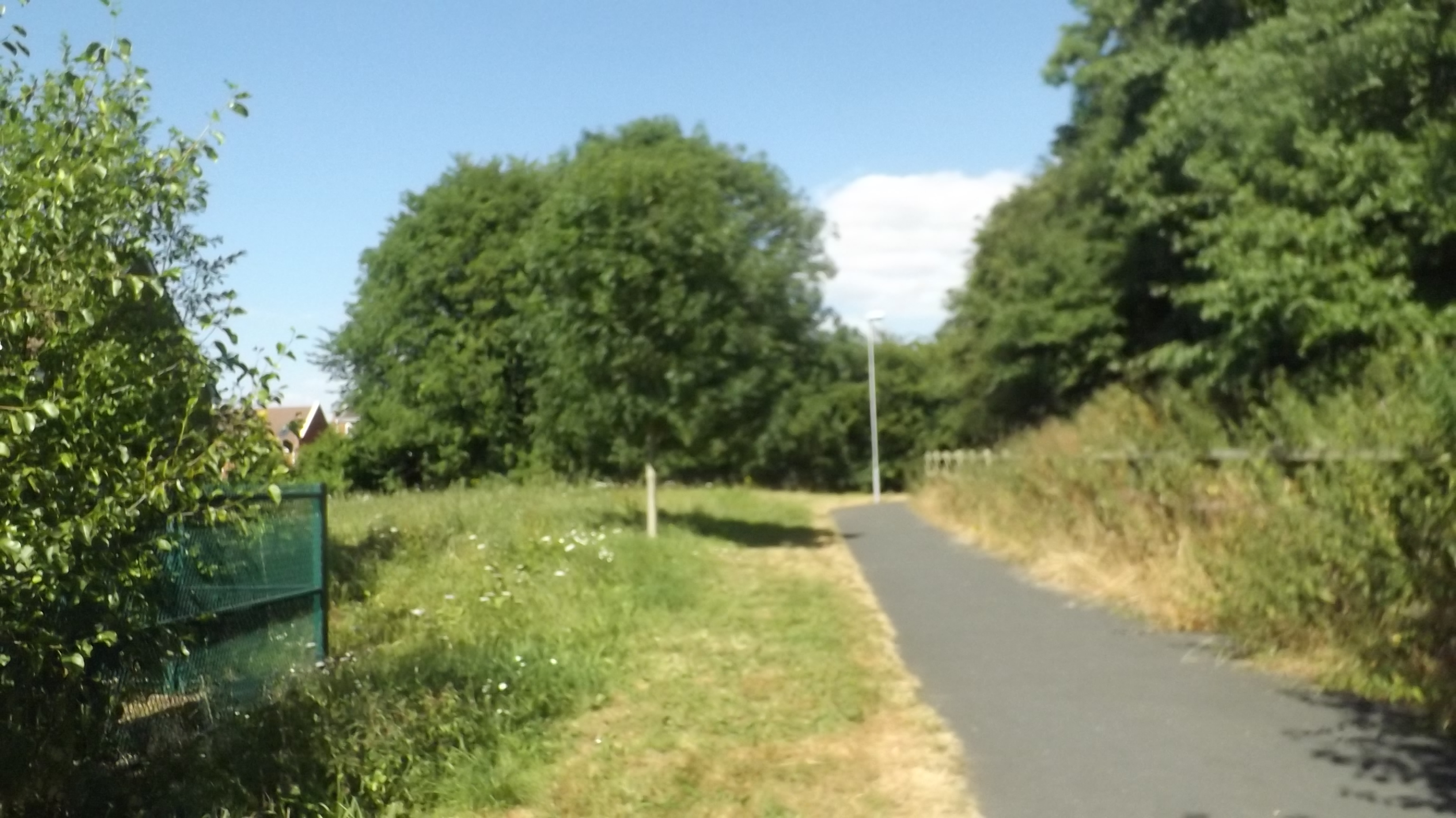 My own.